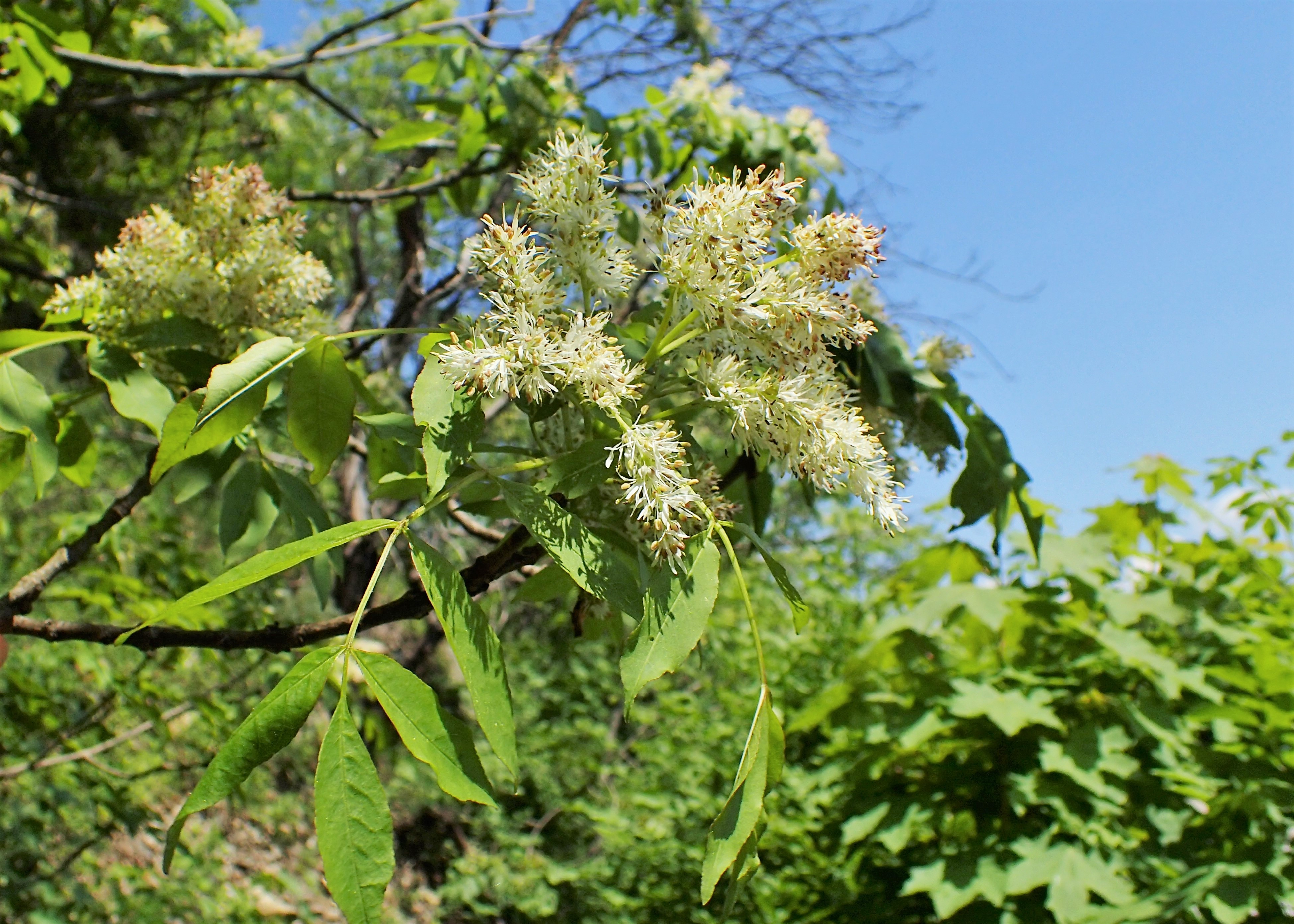 Fraxinus ornus on slopes of Vitosha Mt., Bulgaria